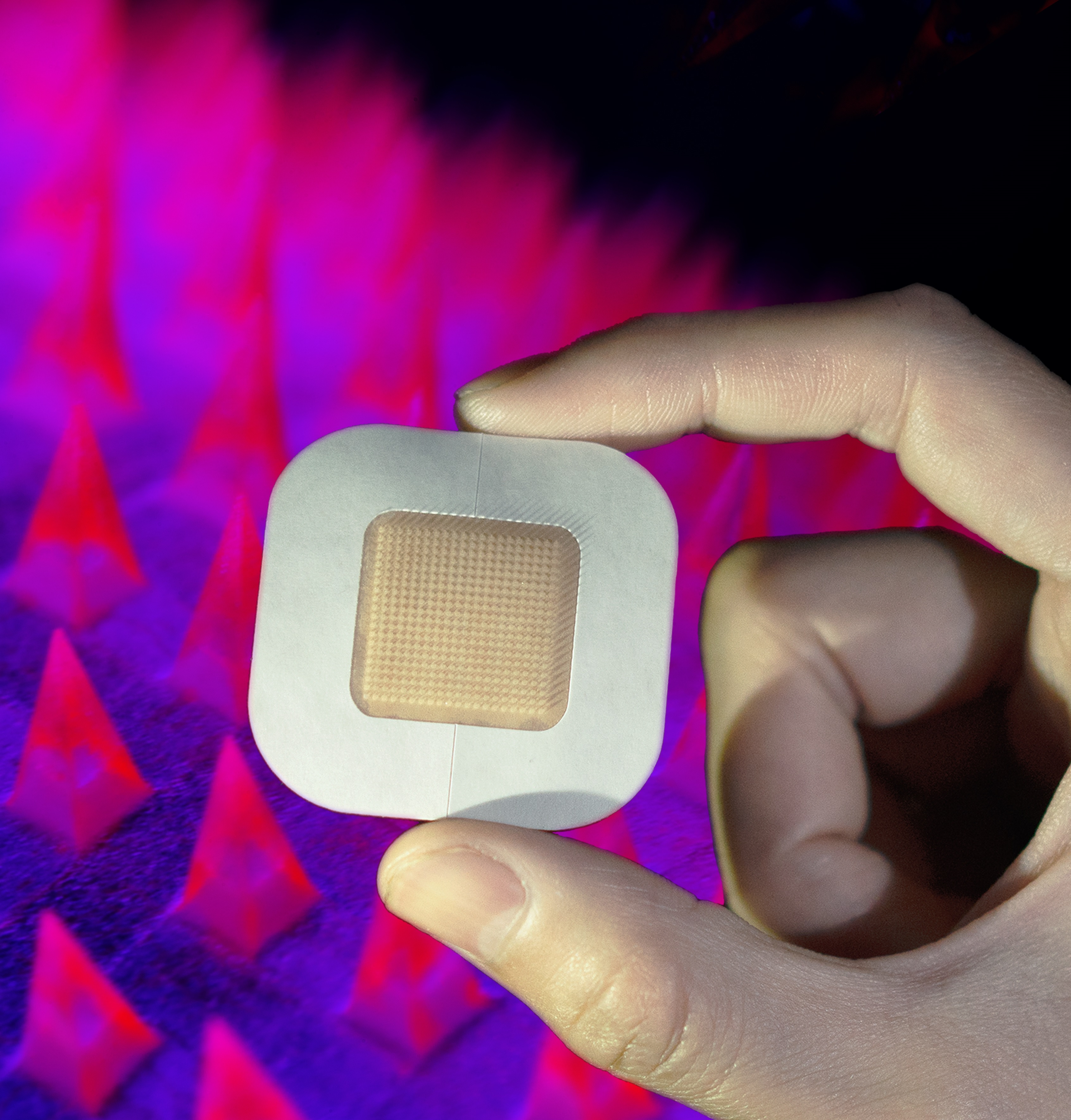 “Smart Insulin Patch” by Zenomics.